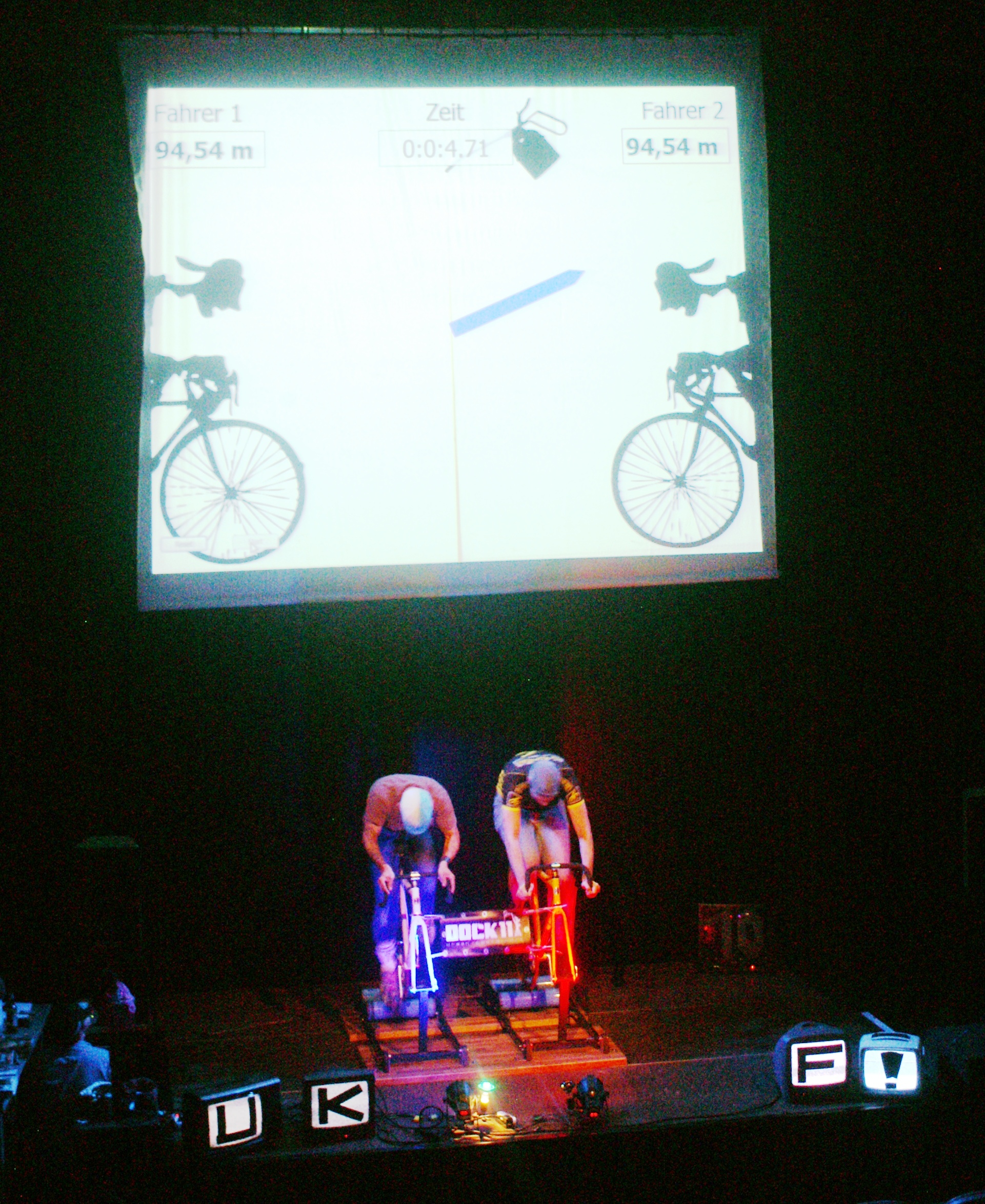 Goldsprint race at the 7th International Cycling Film Festival, October 5, 2012 in Herne, Germany